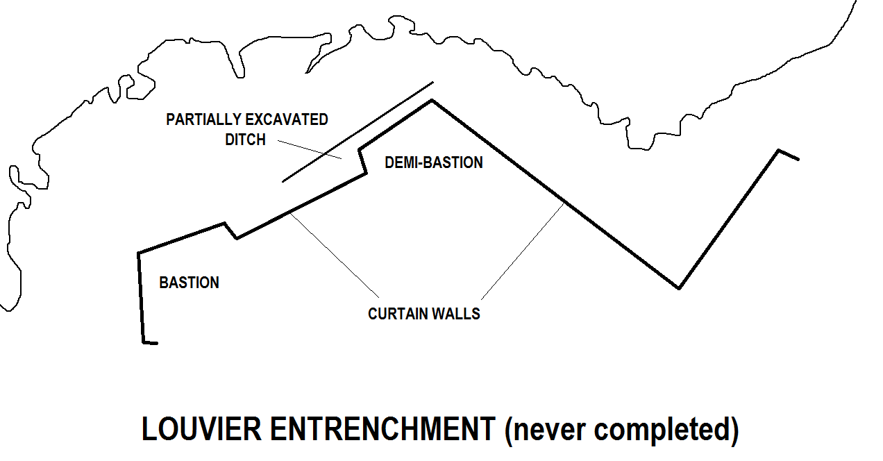 Map of the never-completed Louvier Entrenchment in Mellieħa, Malta.